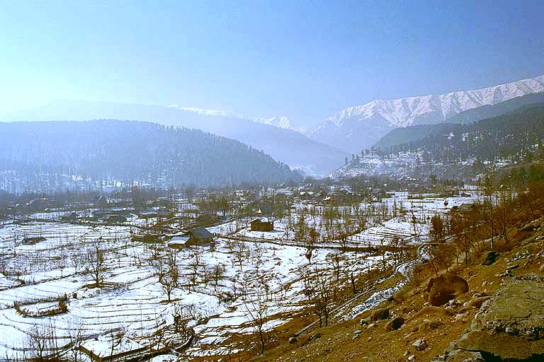 The Vale of Kashmir, from Talmarg. Kashmir, India